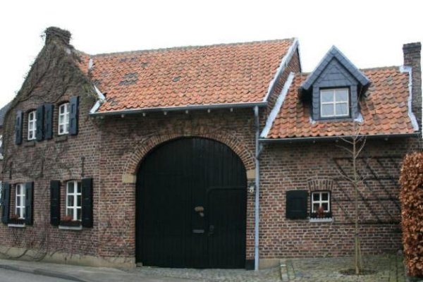 Cultural heritage monument No. 47 in Selfkant